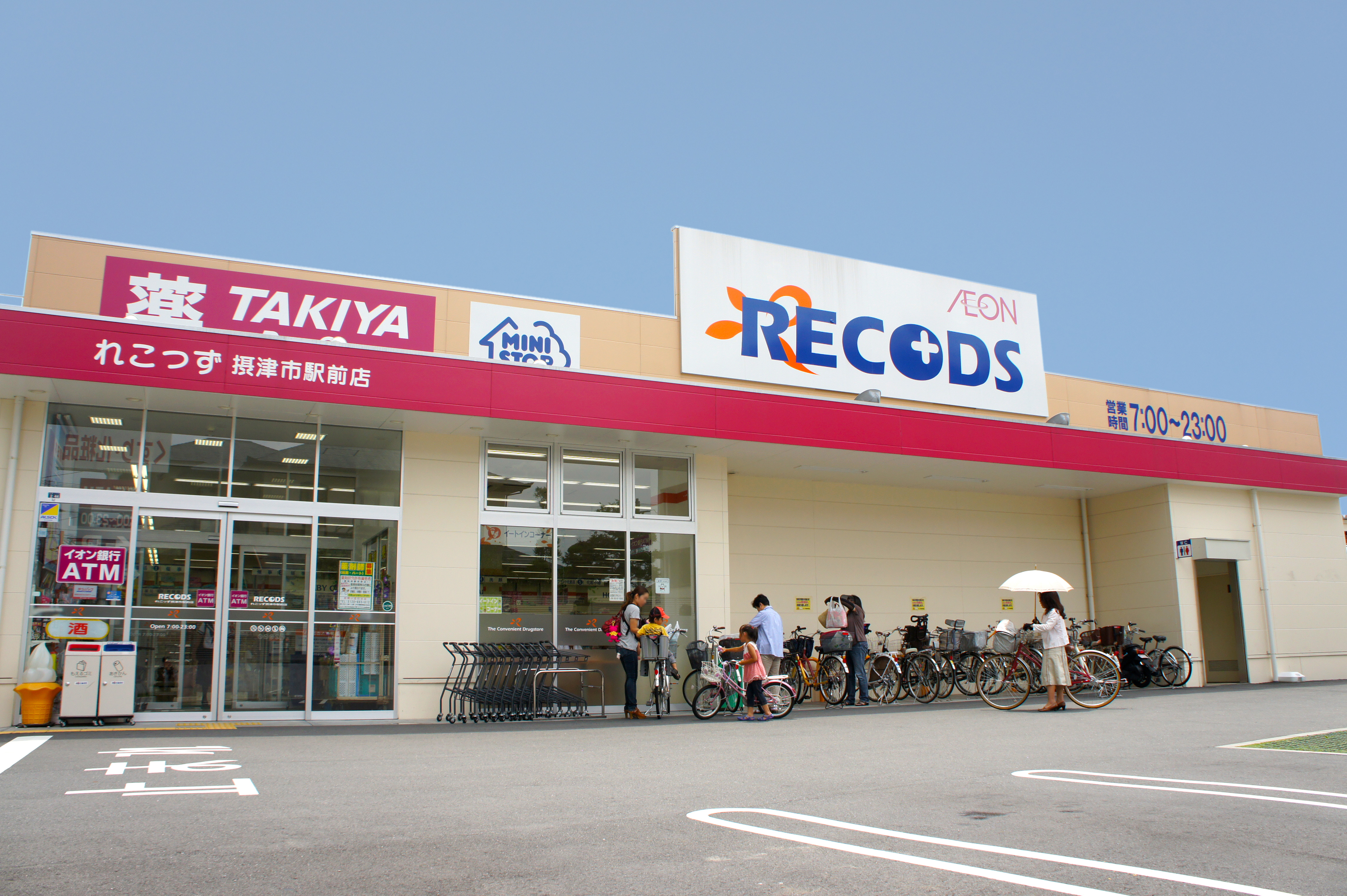 RECODS Settsu-shi Ekimae, 2-2-44 Shouya Settsu-City Osaka Japan.